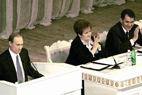 STATE KREMLIN PALACE, MOSCOW. An address at the constituent congress of the Unity national public and political movement. With the Unity movement leader, Deputy Prime Minister, Sergei Shoigu, and First Deputy Speaker Lyubov Sliska.